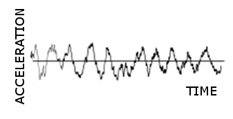 I created this image and now fix labels. Halpaugh (talk) 15:52, 19 May 2011 (UTC)